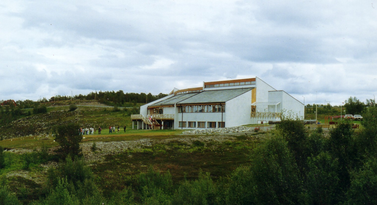 Alta Museum in Alta, Finnmark, North Norway